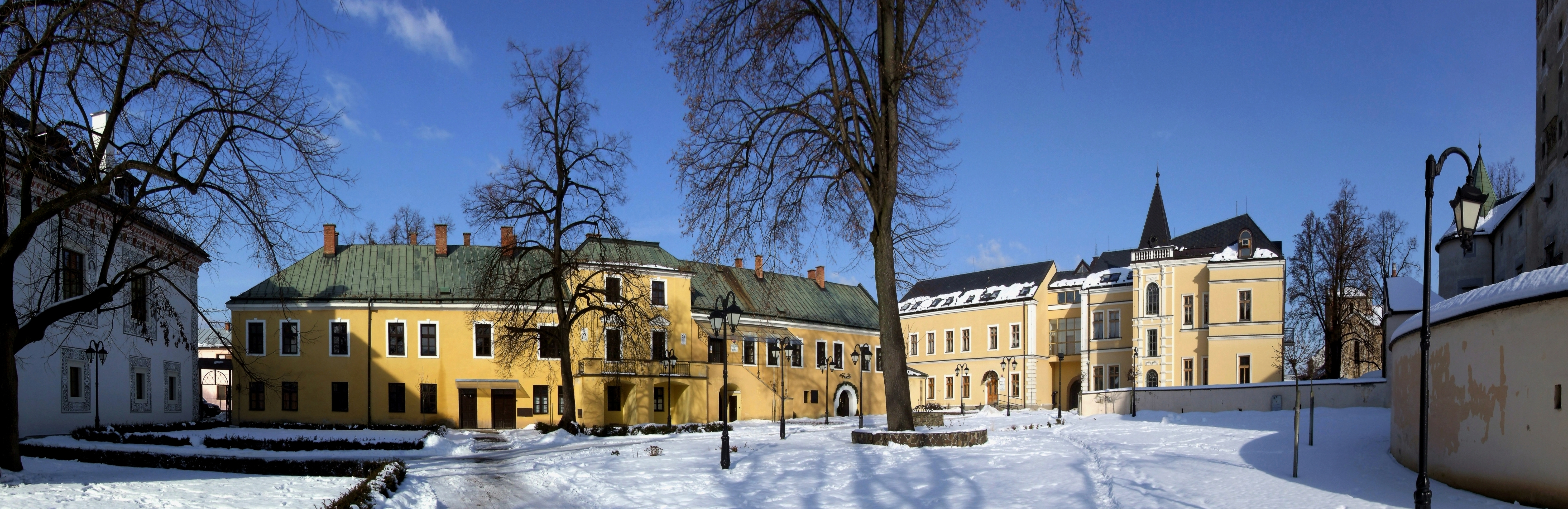 Castle complex in Bytča